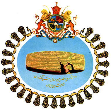 Emblem of the 2.500 years celebrations of Monarchy in iran